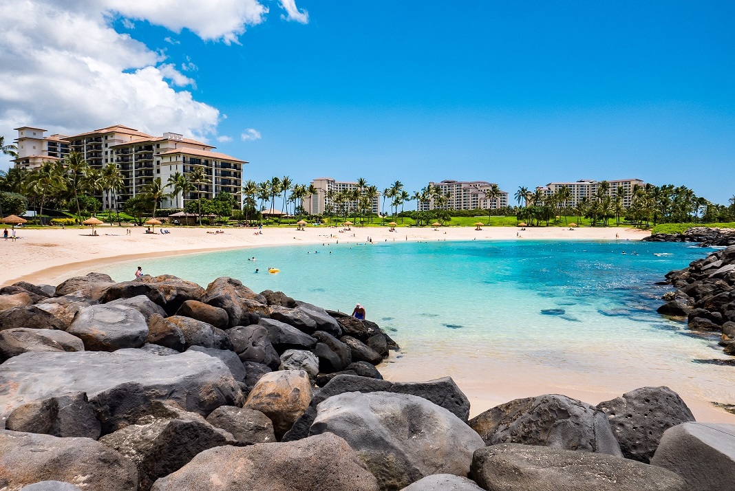 Ko Olina Resort is home to the most pristine beaches in Hawaii